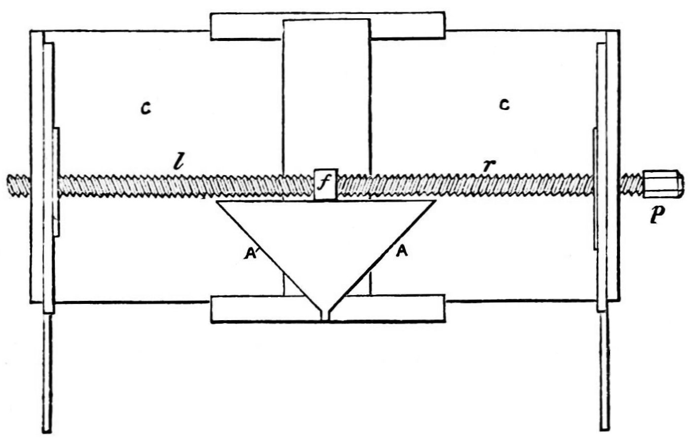 Wheatstone stereoscope